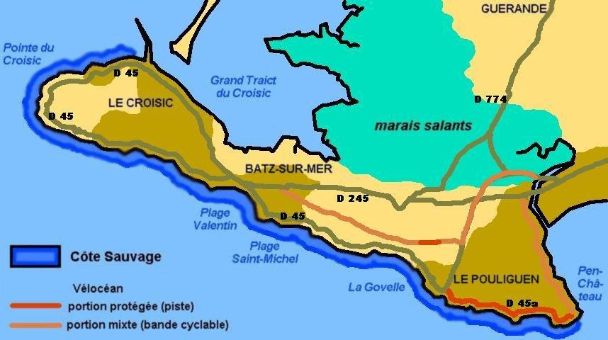 Map of La Côte Sauvage de la Presqu'île Guérandaise (Wild Coast - France) with cycling tracks